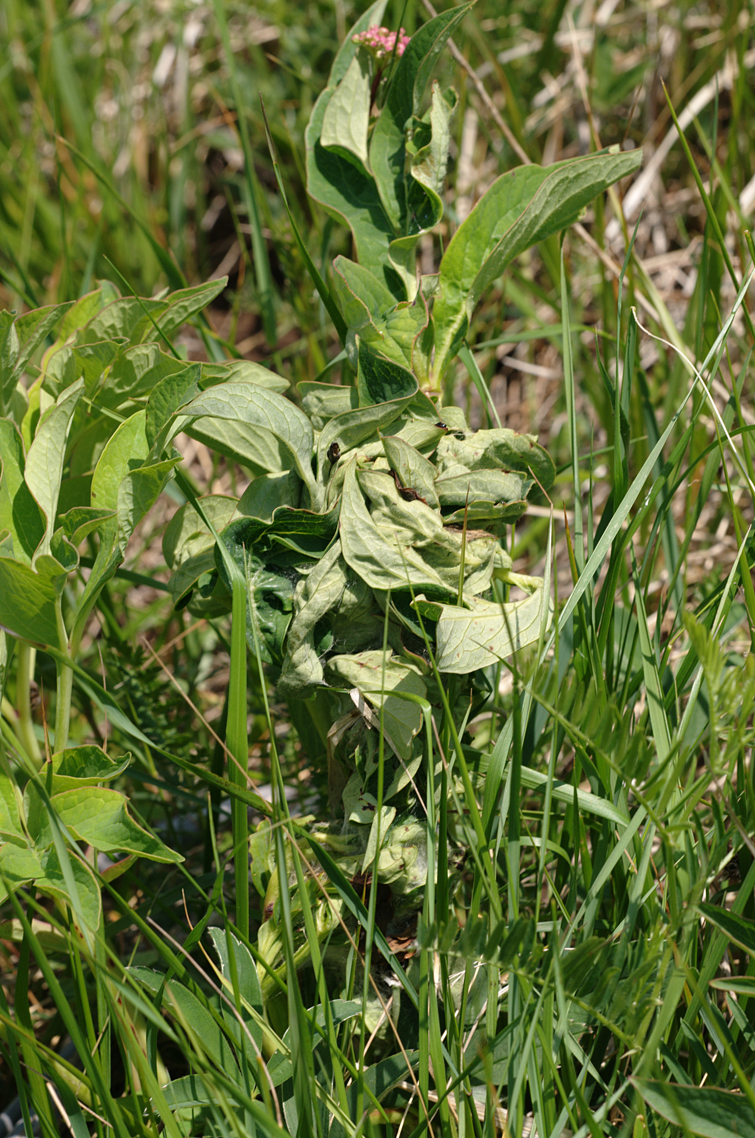 Pelatea klugiana, web Location: Podgorje, Slovenia 8 EX DG APO IF Makro f/9 Film / Speed: ISO 320 Comment: identification: Stanislav Gomboc